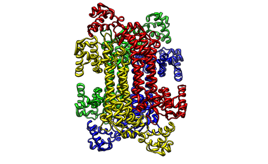 ASL Tetramer at 50 percent